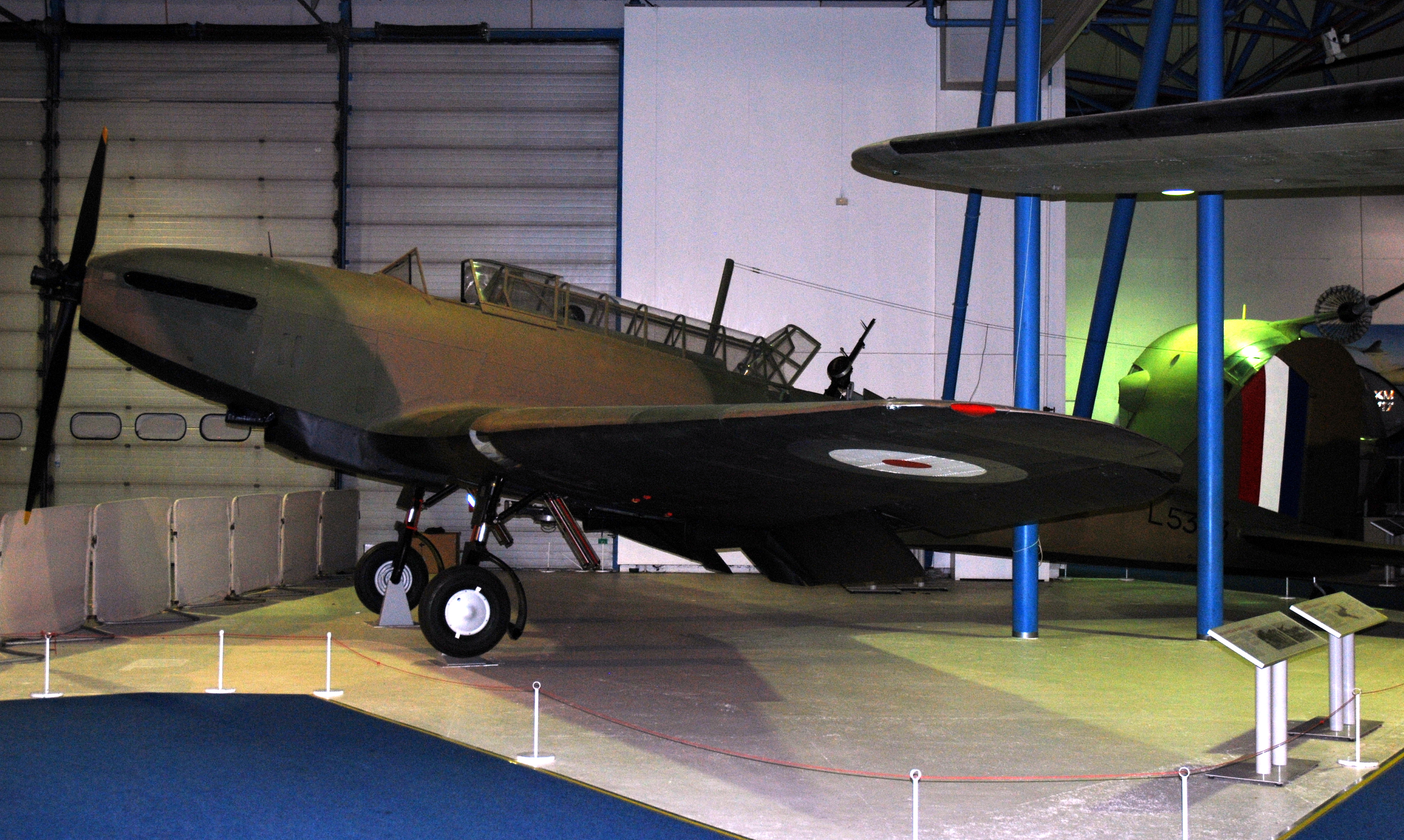 Photo ref; Nikon-D80-2015-DSC_0780 (Edited)